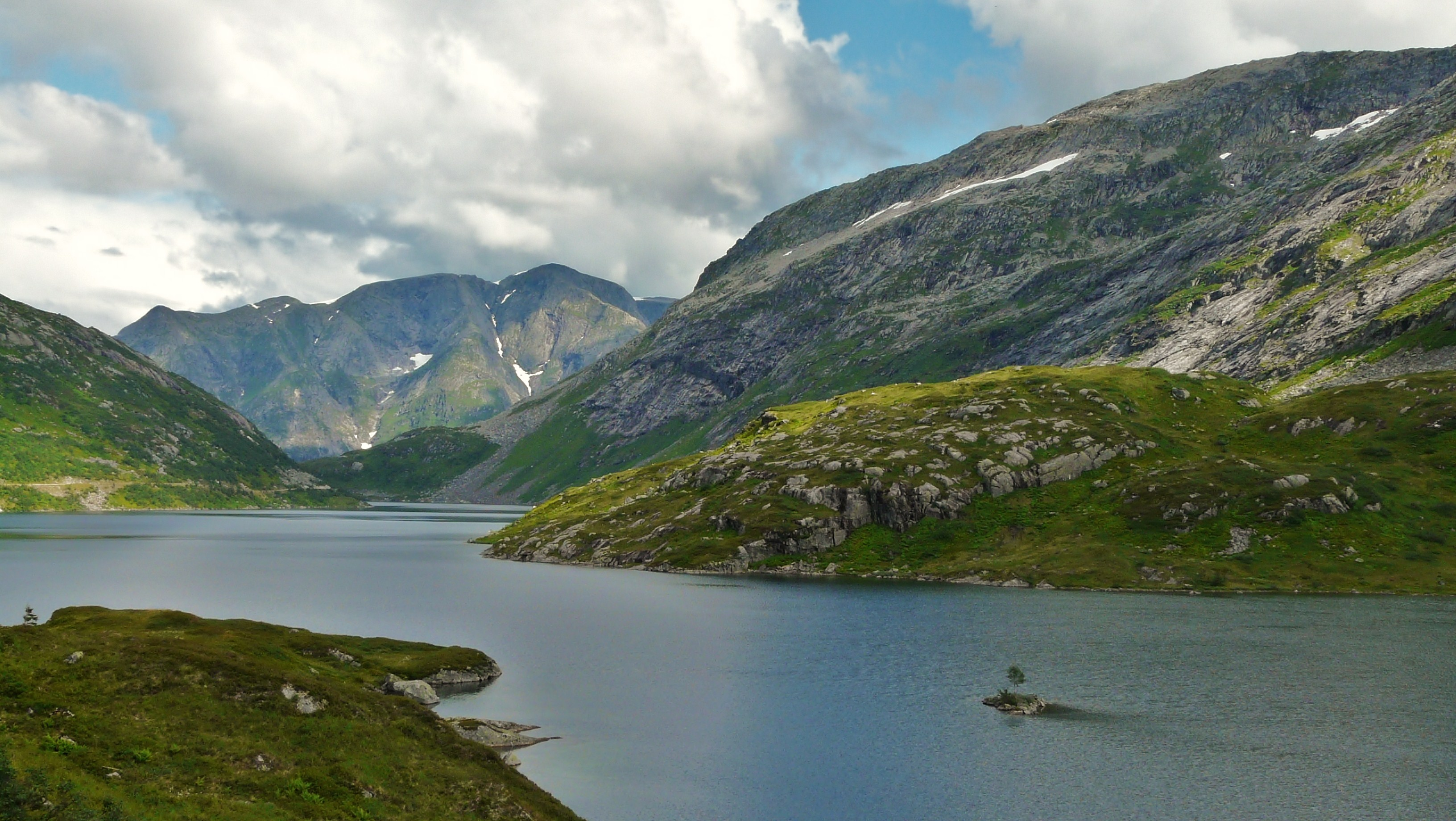 Nystølsvatnet as seen from the Riksvei 13 road by the northern coast of the lake in 2008 August. The camera is heading towards east during the take of this photograph.